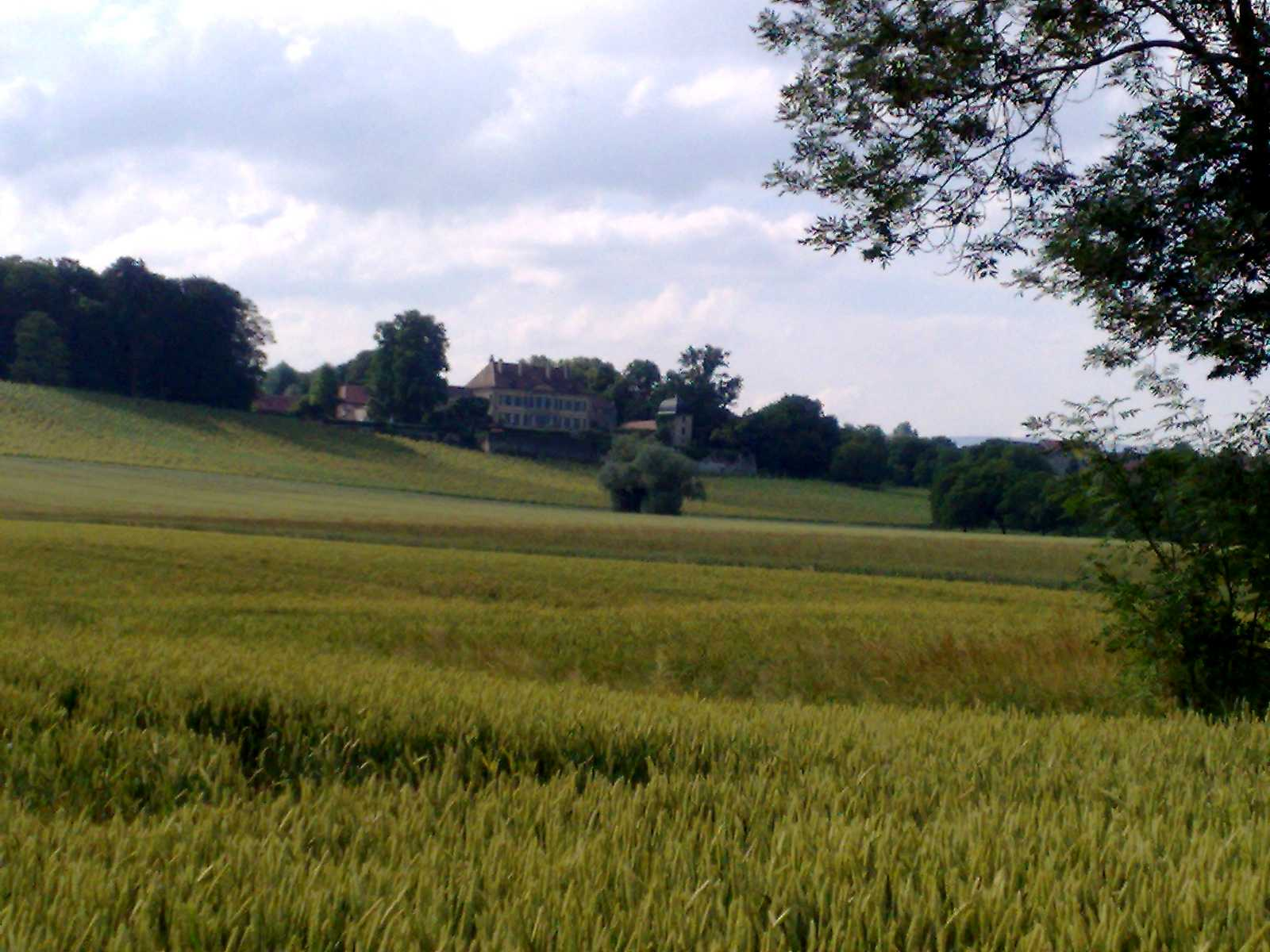 The castle of Vullierens in Switzerland.